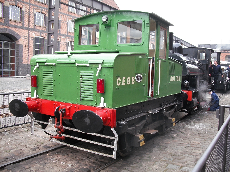 English Lectric Battery Locomotive